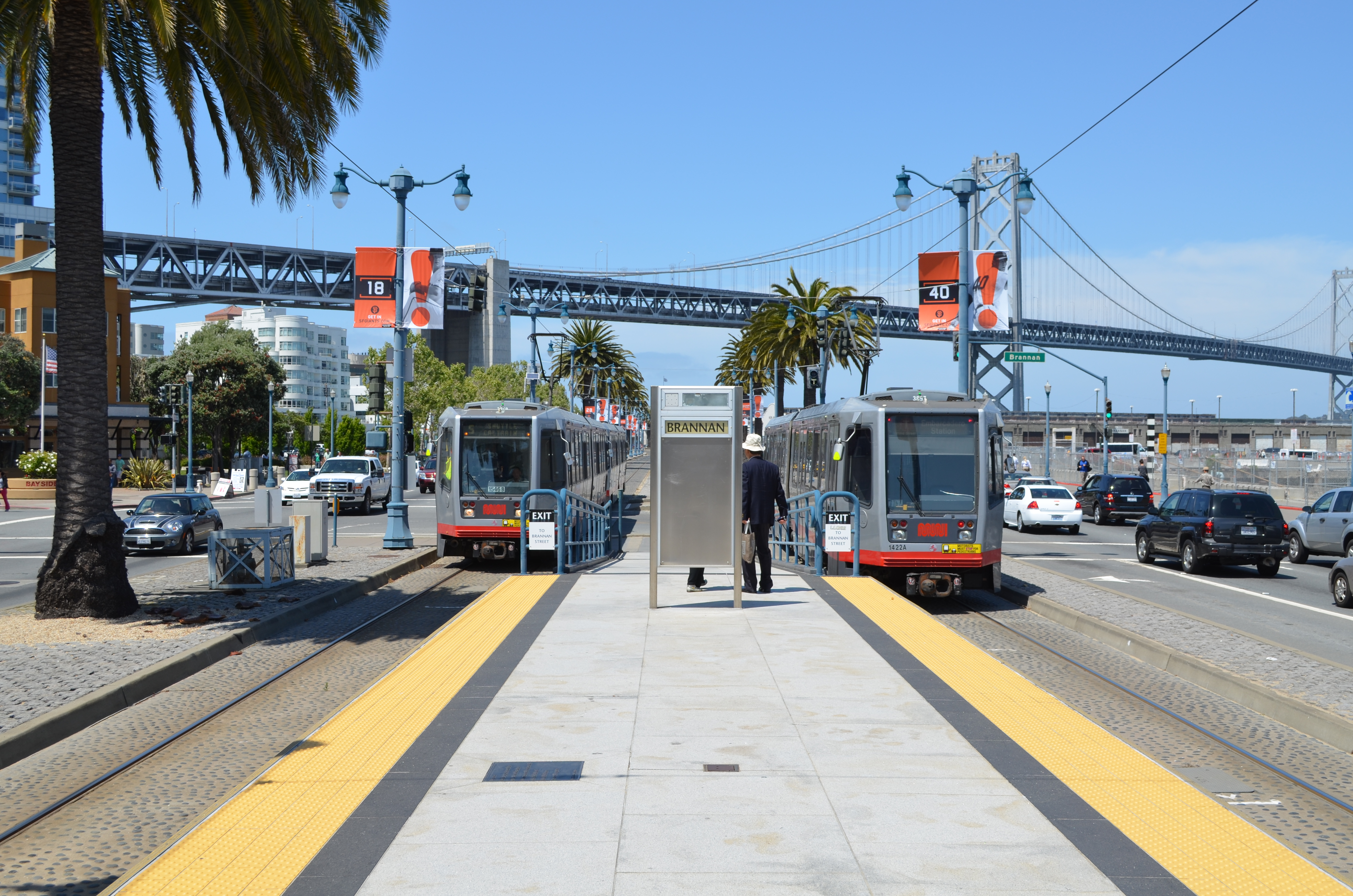 Southbound (left) and northbound trains at Brannon station in May 2012